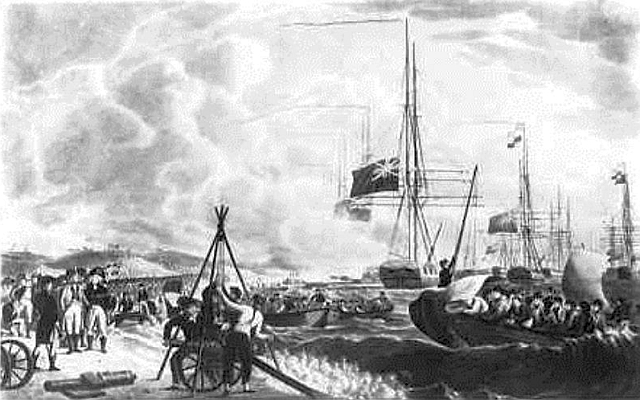 Surrender of Samuel Story's Dutch Texel squadron to a British-Russian fleet under Andrew Mitchell, 30th of August 1799 in the Vlieter